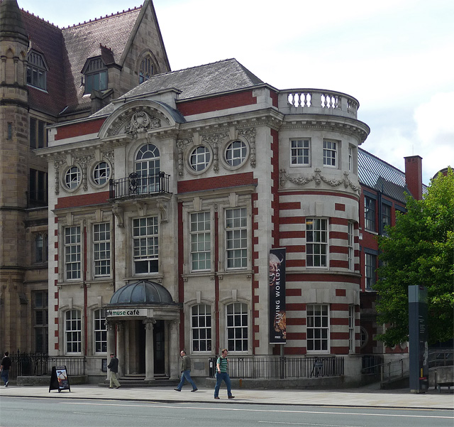 Photograph of the former Dental Hospital, Manchester, England